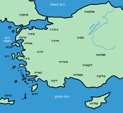 Map of Caria in French. Adaptated from Image:Turkey ancient region map caria.JPG.